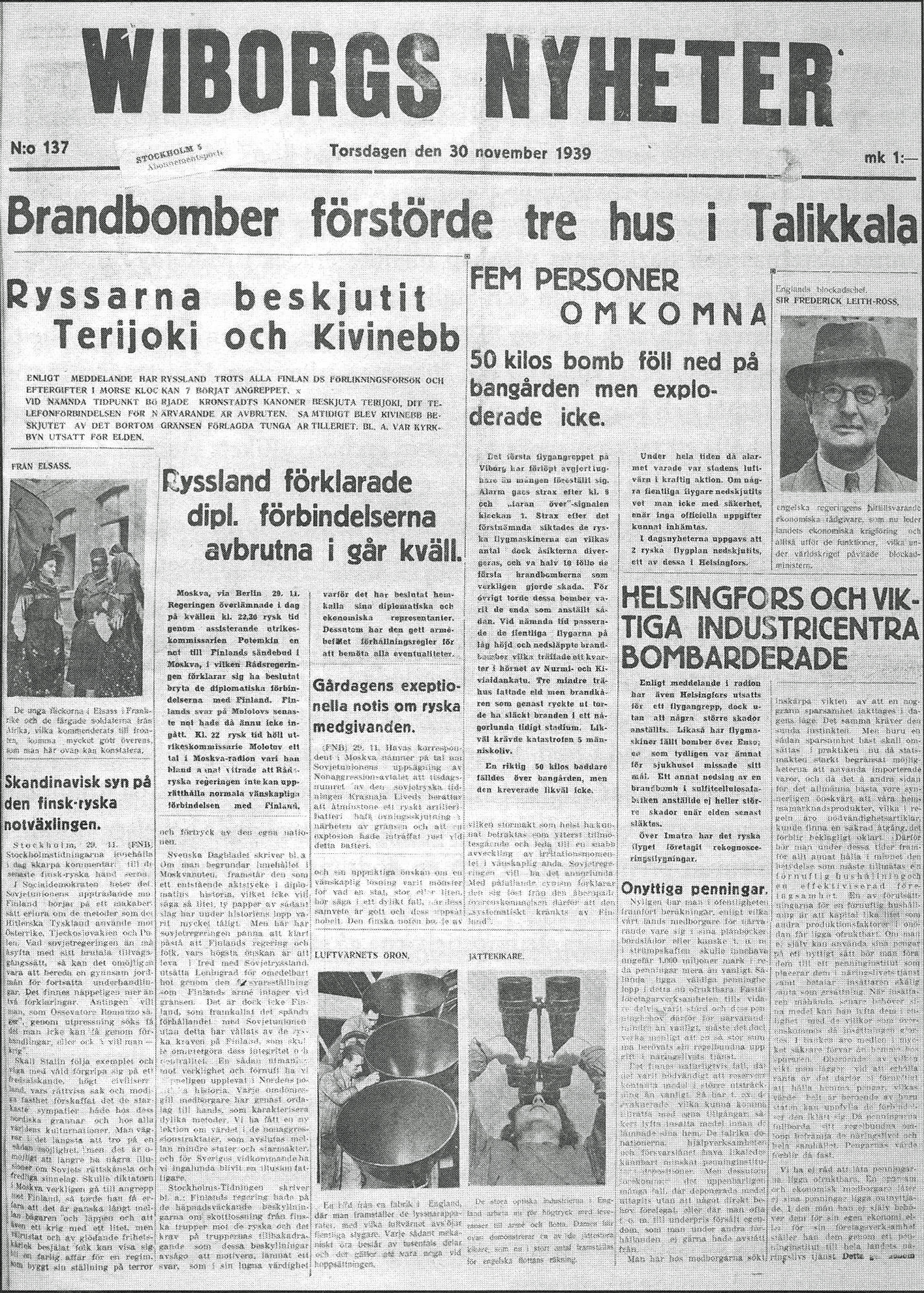 The last issue of Wiborgs nyheter, published in its hometown on November 30, 1939. The next day, it was open war. The editorial board fled, and today the newspaper is published once a year in Helsinki.